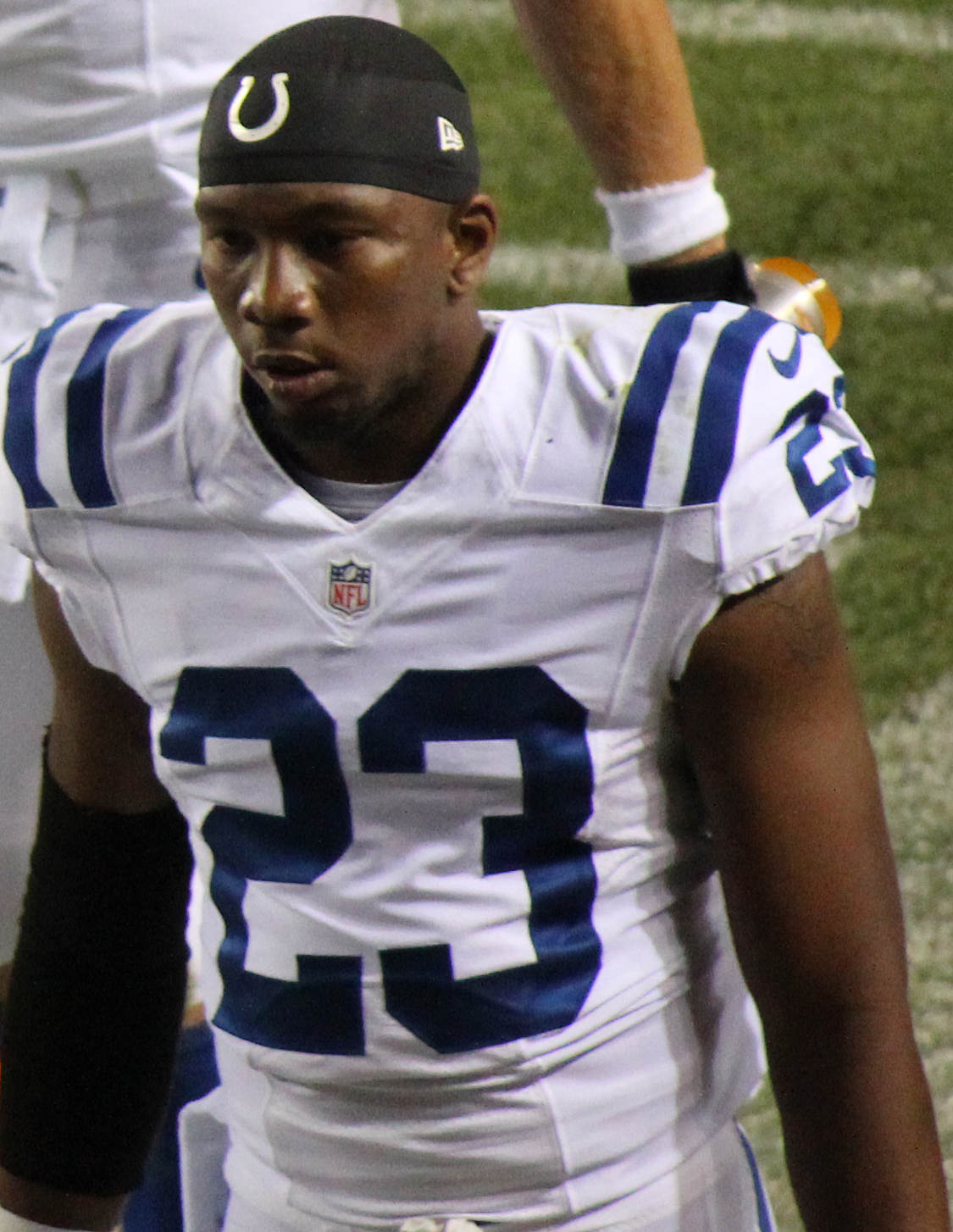 Loucheiz Purifoy, a player on the National Football League.